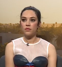 This is a picture of actress Mishel Prada in October 2019 during an interview with CB24.